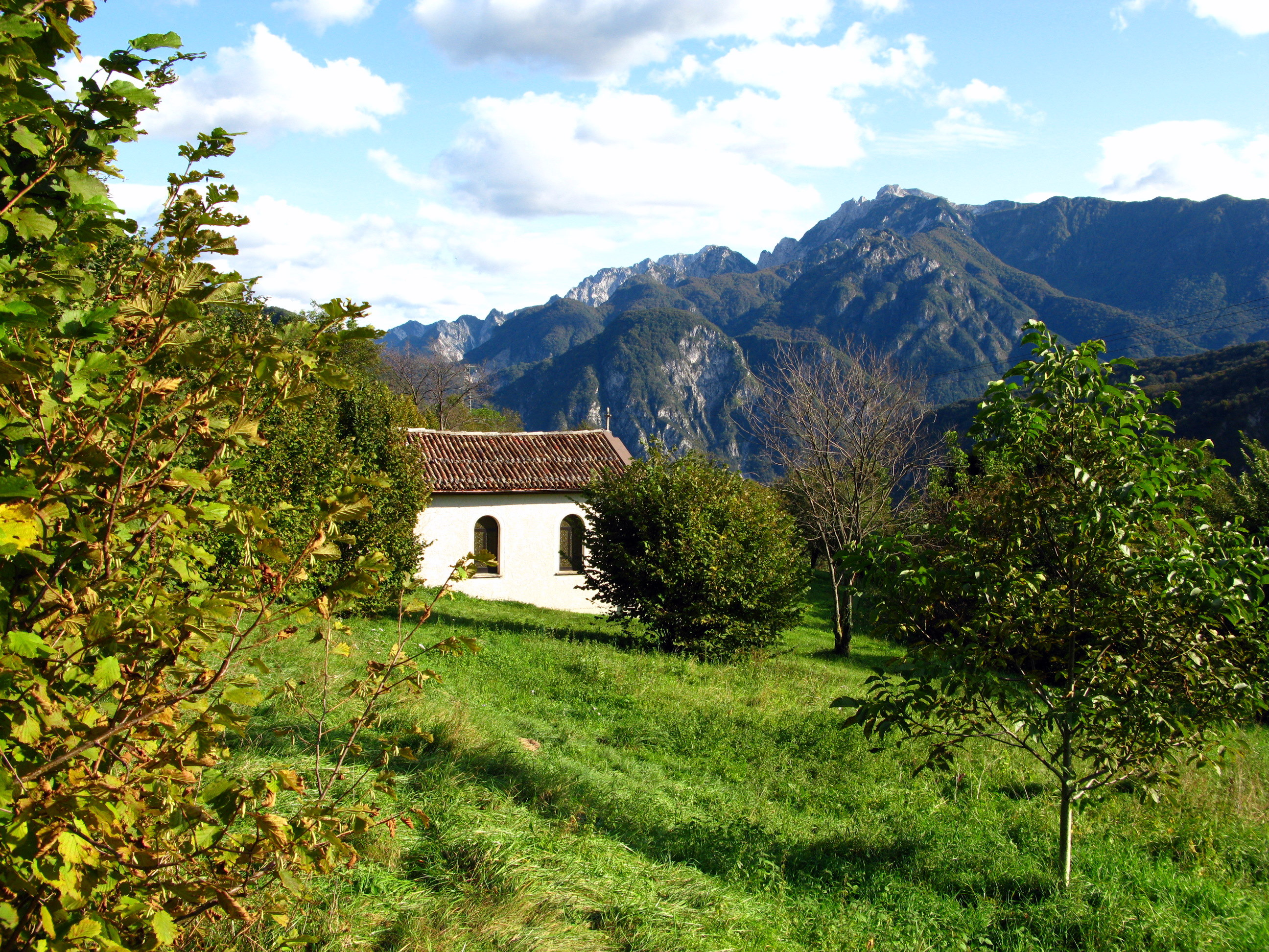 Church of Stavoli, a nearly abandoned villages near Moggio Udinese / Friuli-Venezia Giulia / Italy / EU. In the background the Monte Plauris, part of the Julian Prealps.